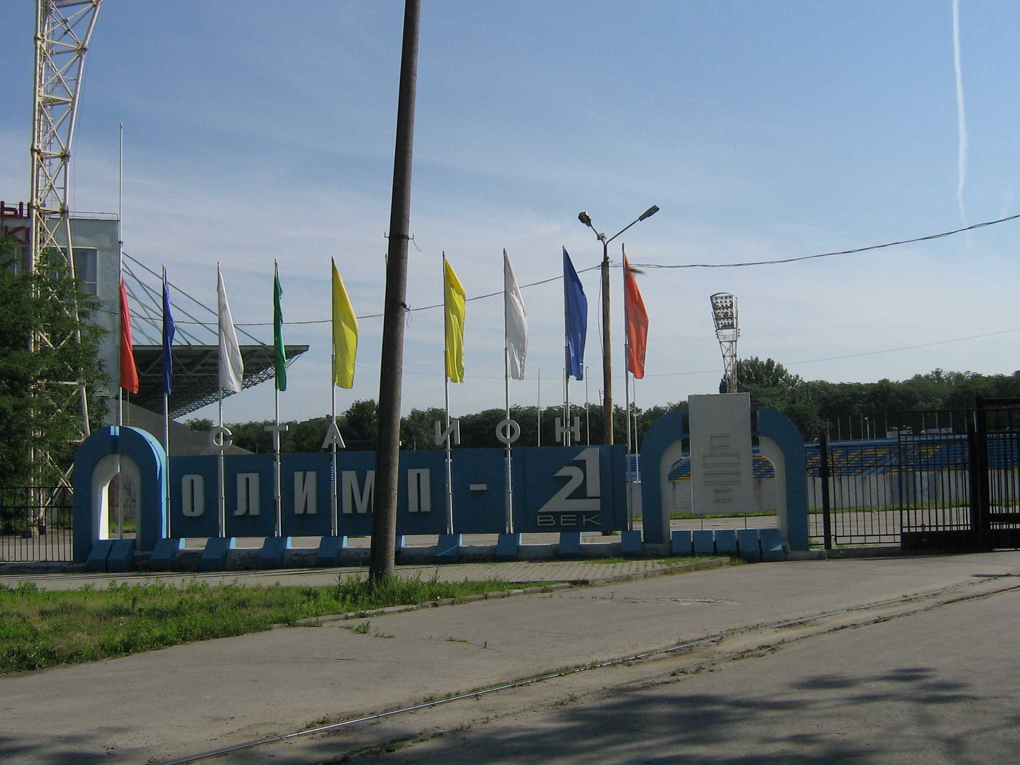 Stadium FC «Rostov» (Rostov-on-Don)